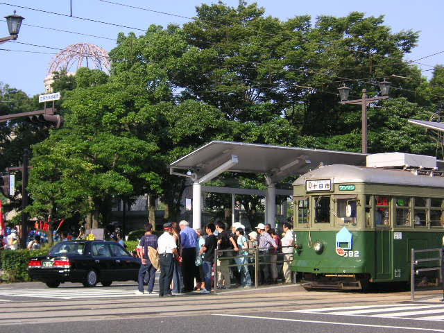 Hiroshima Electric Railway 570 series tramcar at Genbaku Dome Mae Station